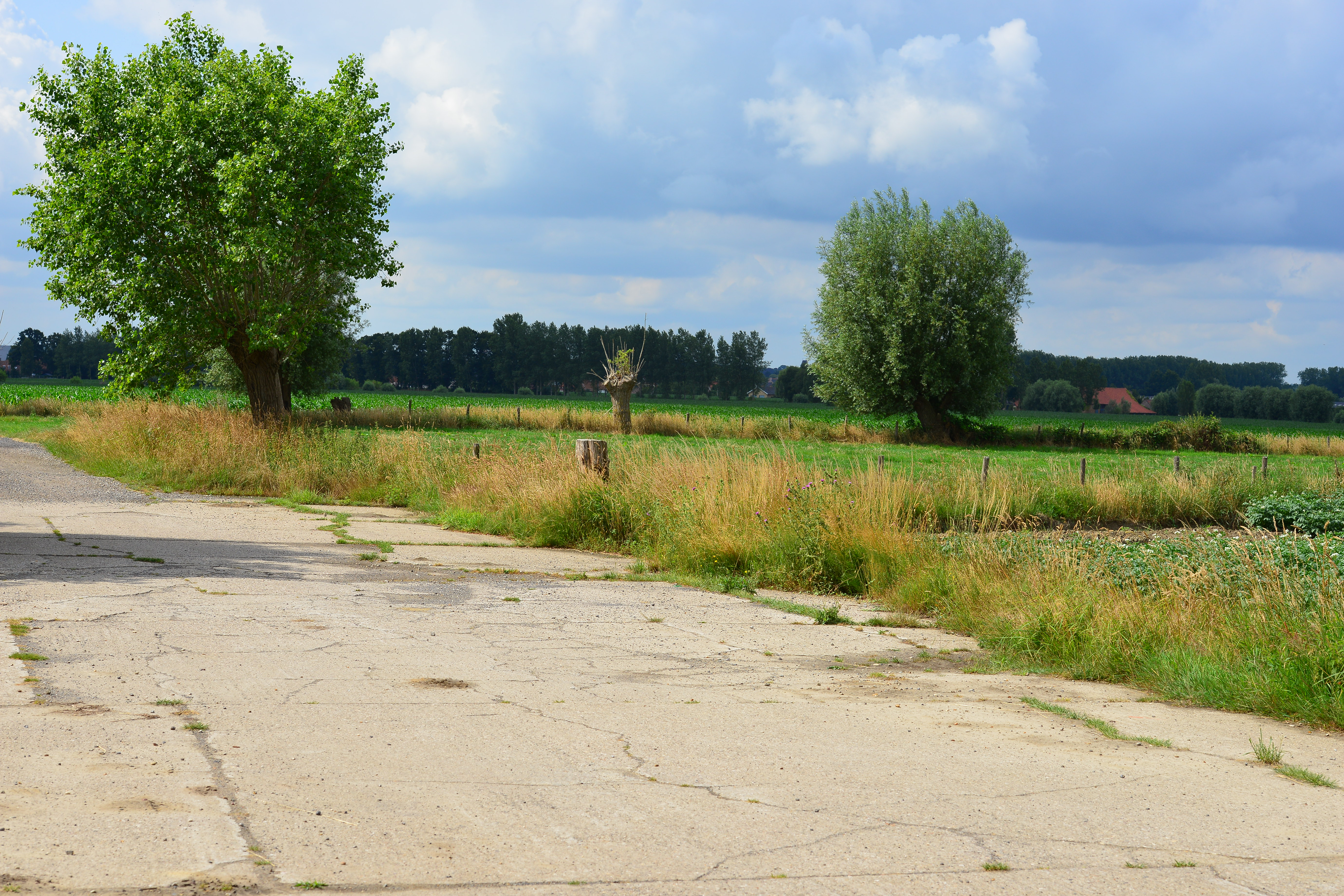 Remains of the runway, war airfield B-67 at Ursel, Belgium